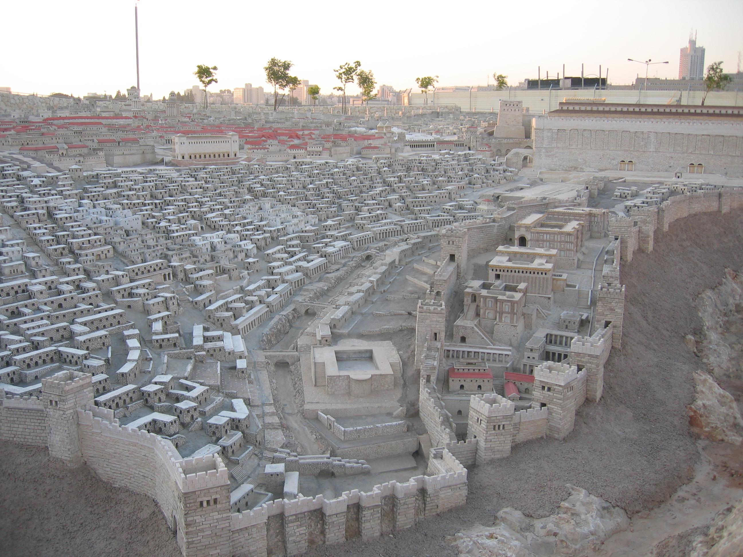 Second Temple Model of the Israel Museum (Jerusalem). View of the south of the Temple mount.